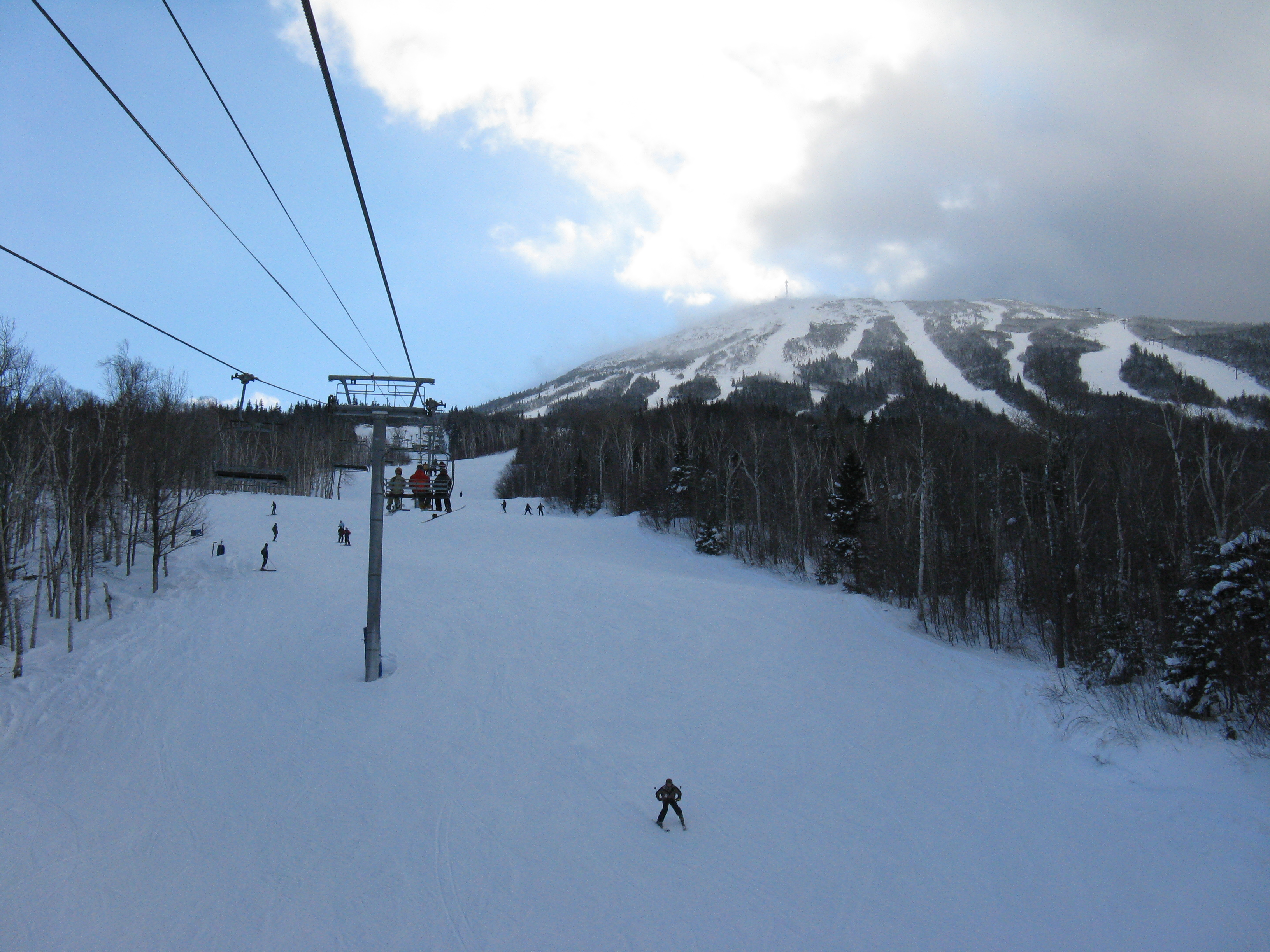 Whiffletree SuperQuad